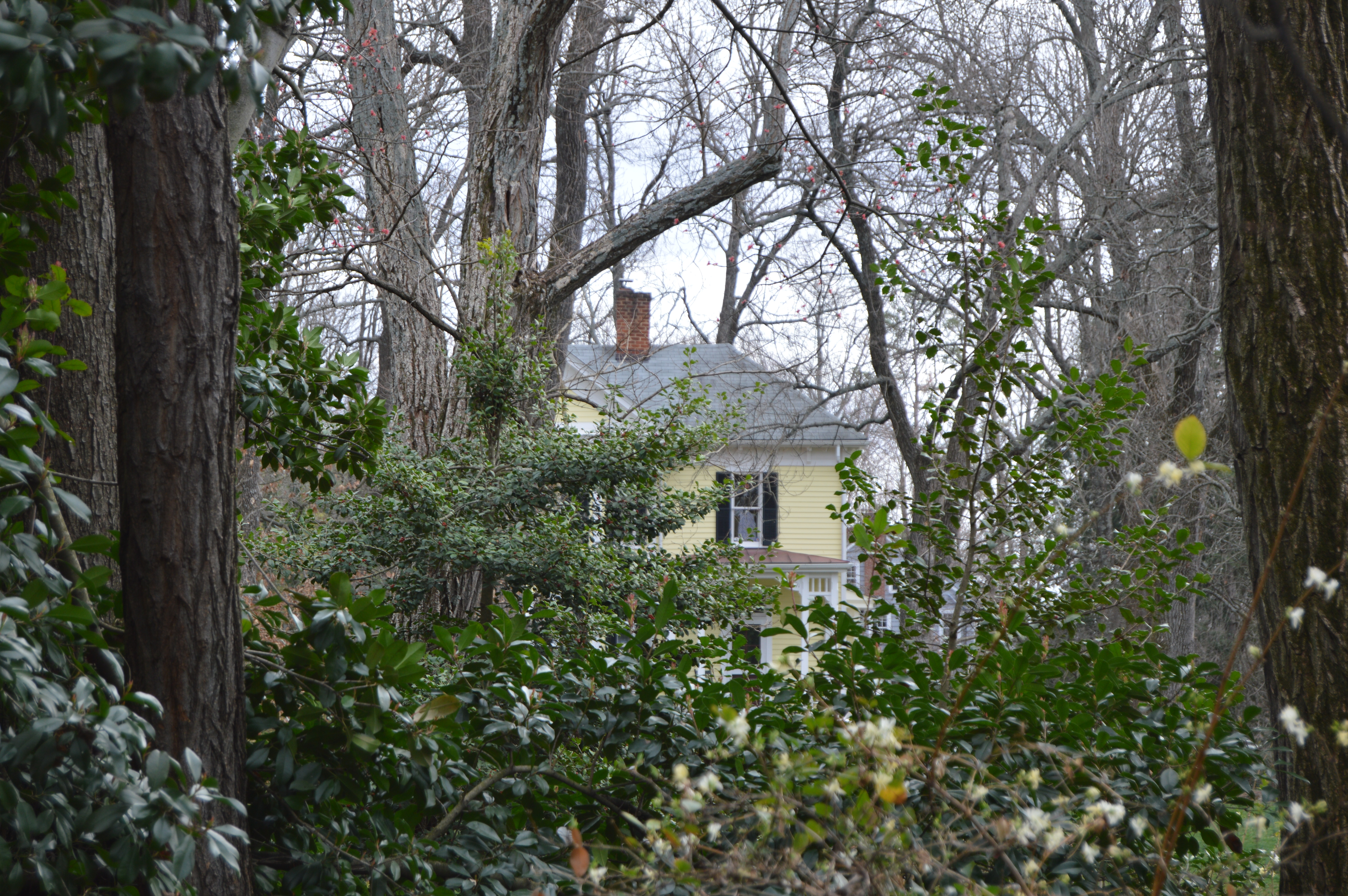 Through-the-trees view of Stonefield, located at 1204 Rugby Road in Charlottesville, Virginia, United States. Built in 1860, it is listed on the National Register of Historic Places.